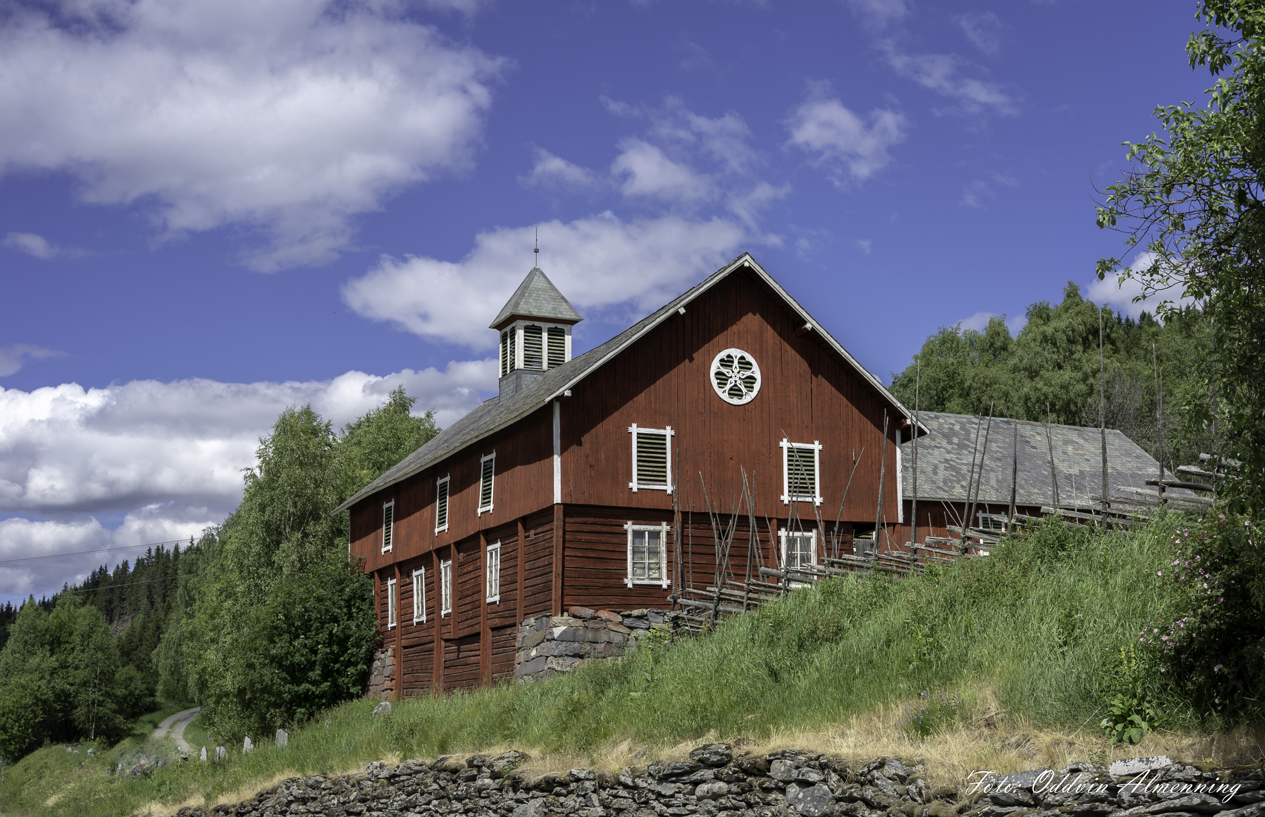 A barn in Vestre Slidre, Oppland, with a "barn rose" or "valdres rose" on the gable wall